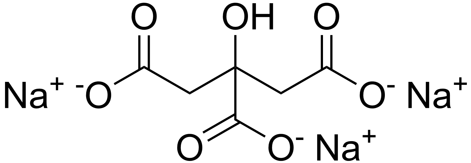 Chemical structure of trisodium citrate